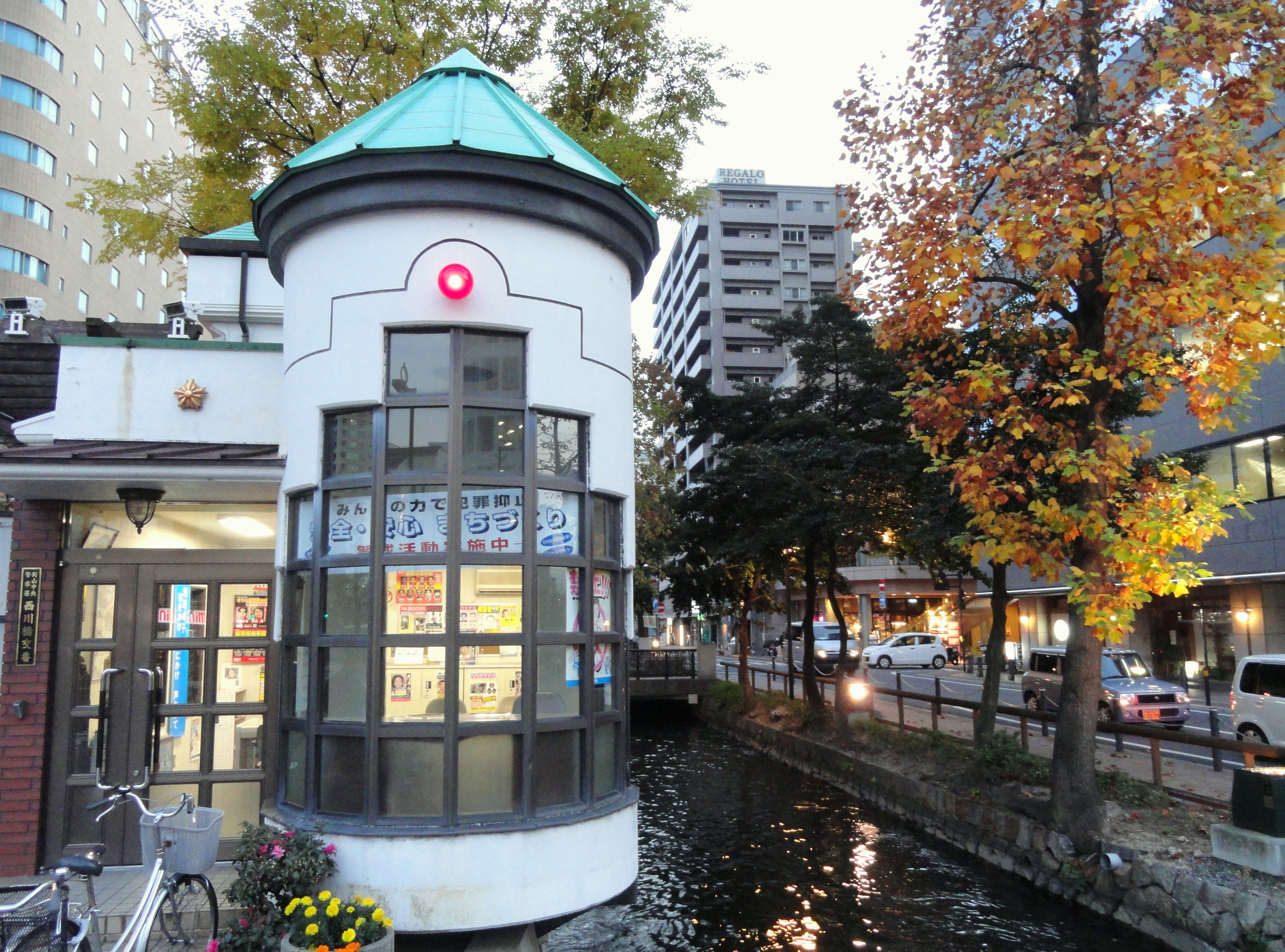 Okayama-Chuo Police Station Nishigawabashi Koban, Nishi-gawa Greenway Canal - Okayama City, Okayama, Japan.